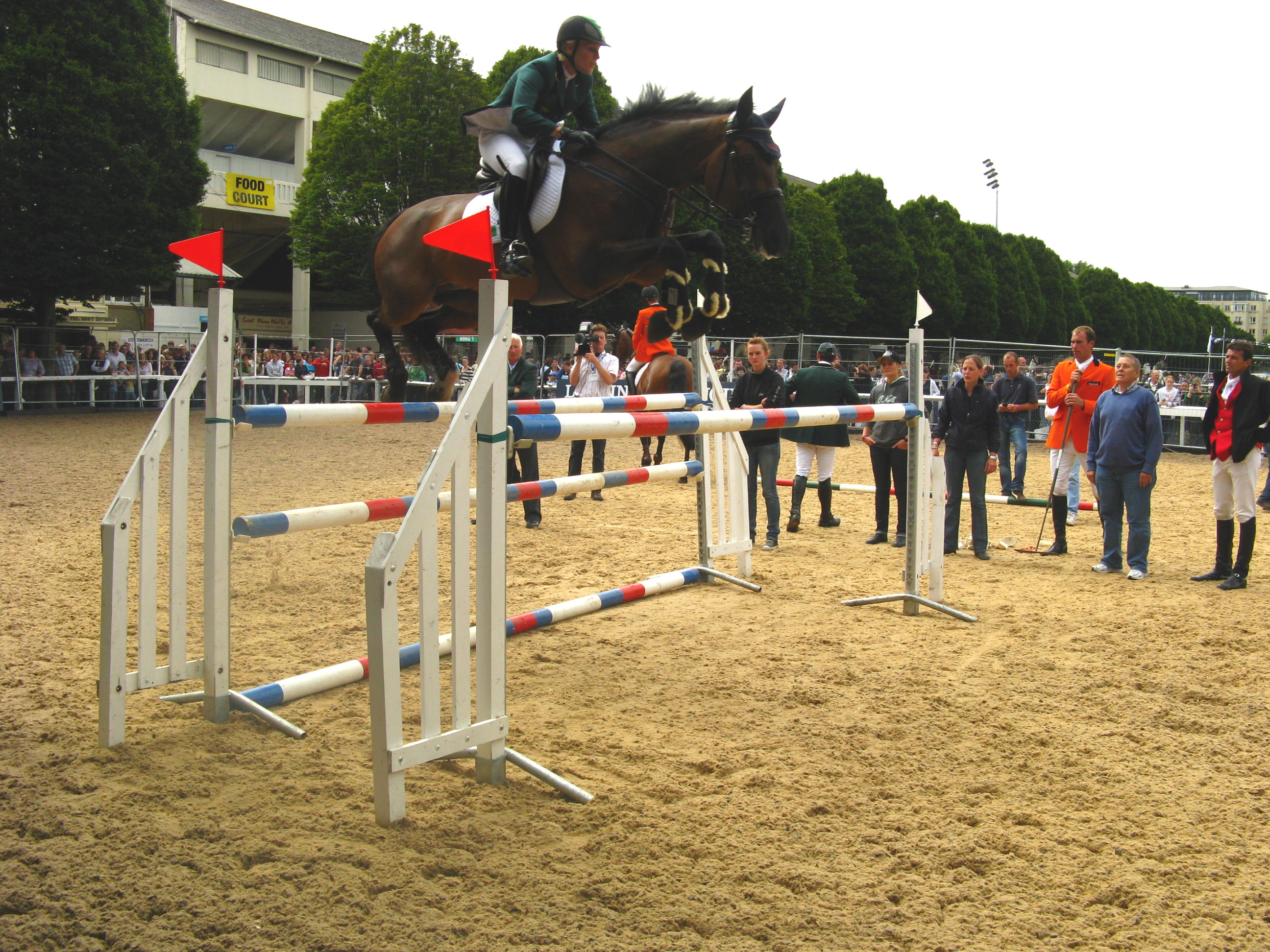 Jessica Kürten and Castle Forbes Libertina in the main practise arena at Dublin Horse Show, Ireland. Samsung Aga Khan Nations Cup 5* Superleague 1m55 €156,000